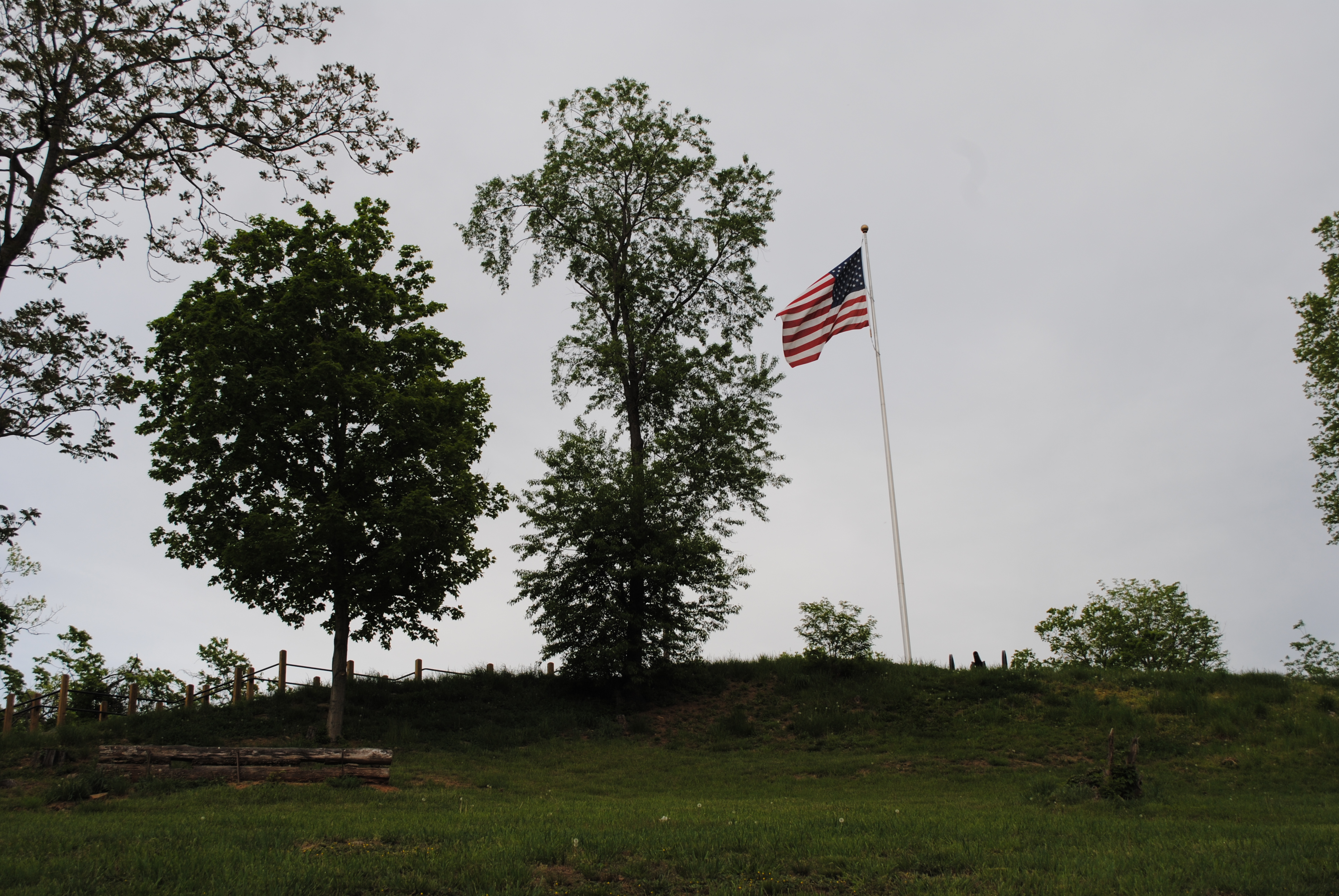 the site of a former civil war fort, now is a public park in Parkersburg, West Virginia